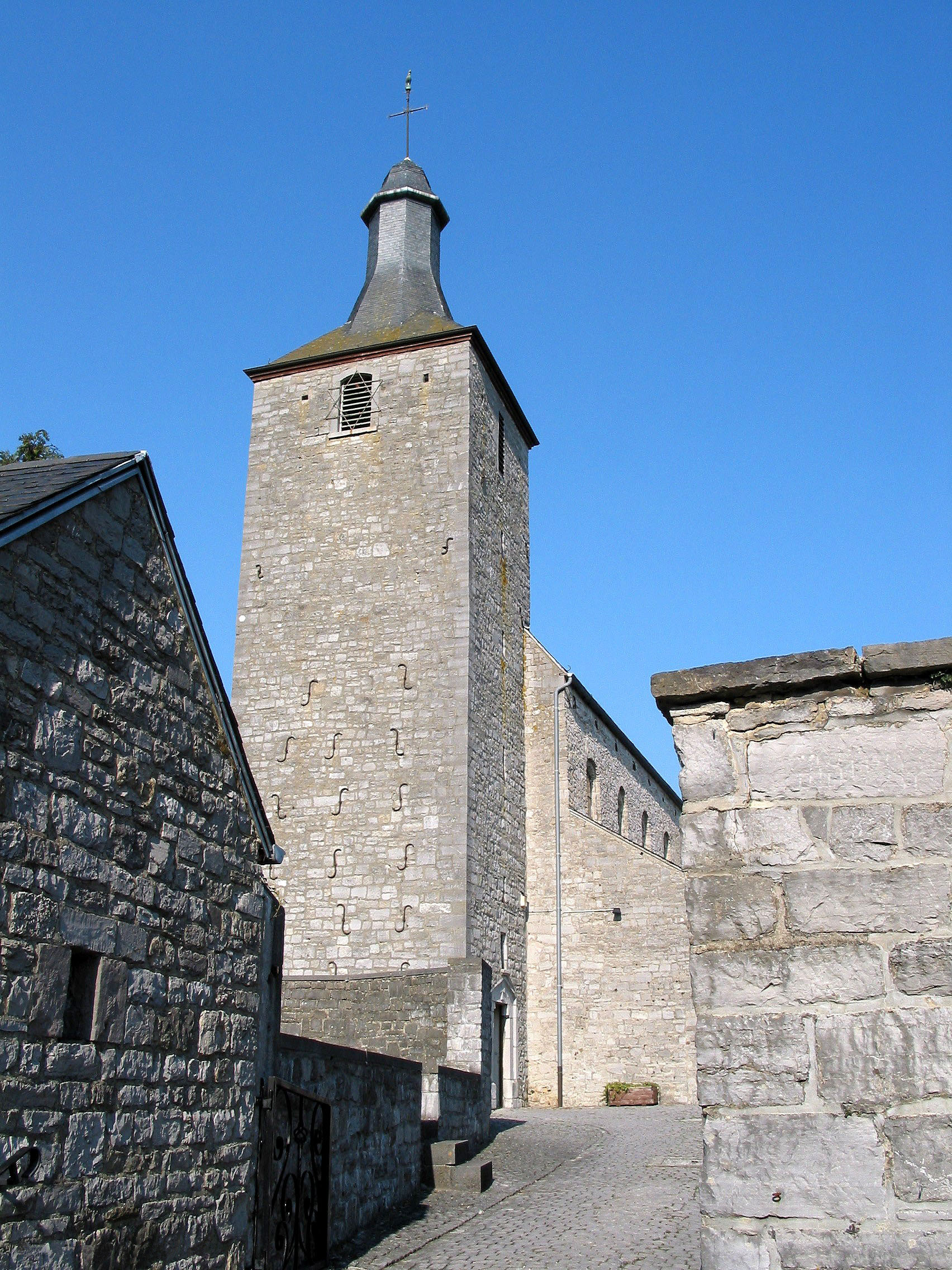 Tohogne (Belgium), the St. Martin church (XIth century).